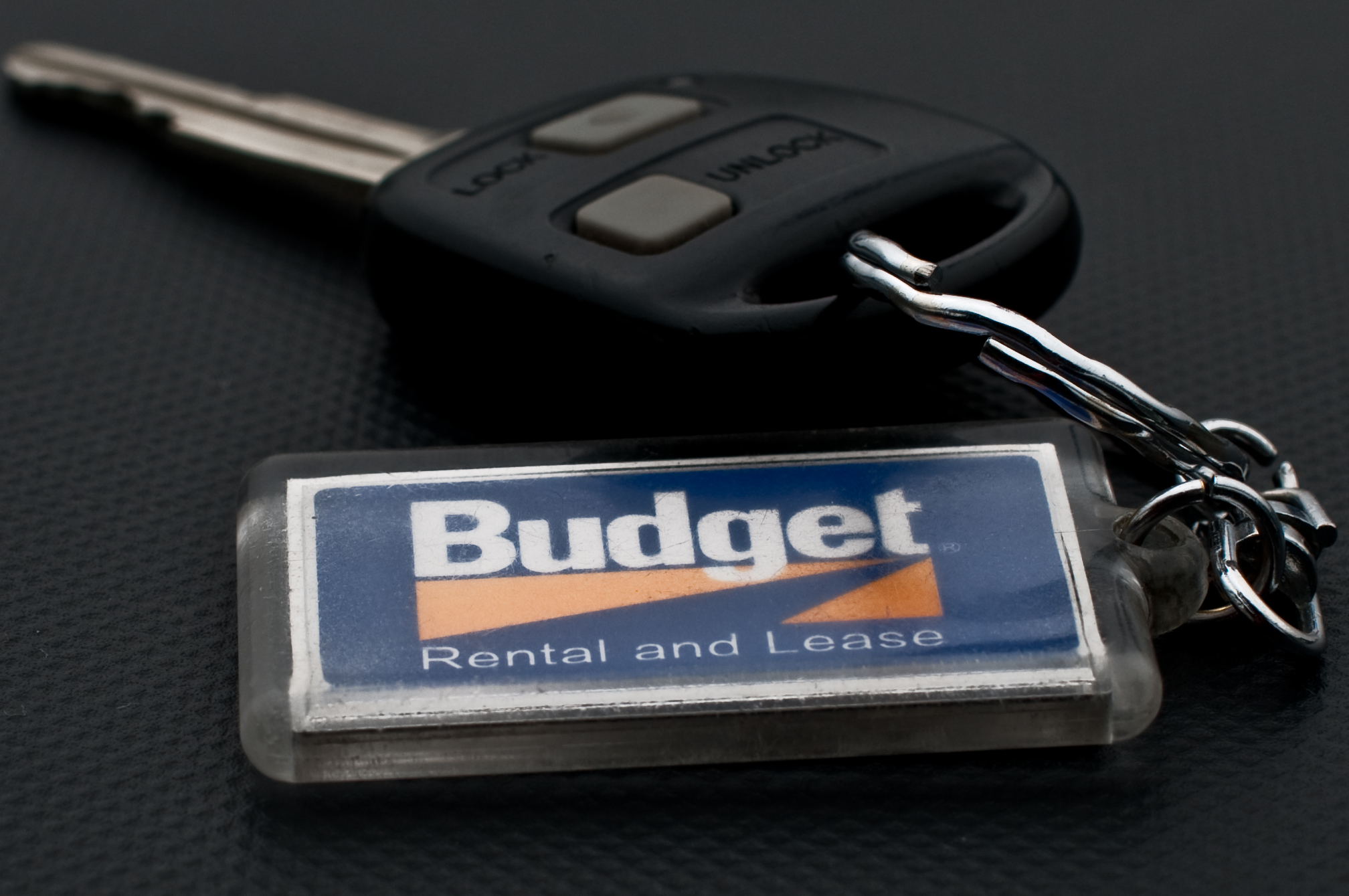 Key chain with the Budget's brand logo.